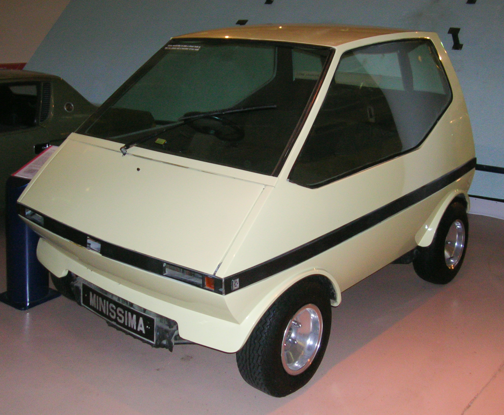 A 1972 Minissima. This vehicle is kept at the British Motor Museum, Gaydon, UK.